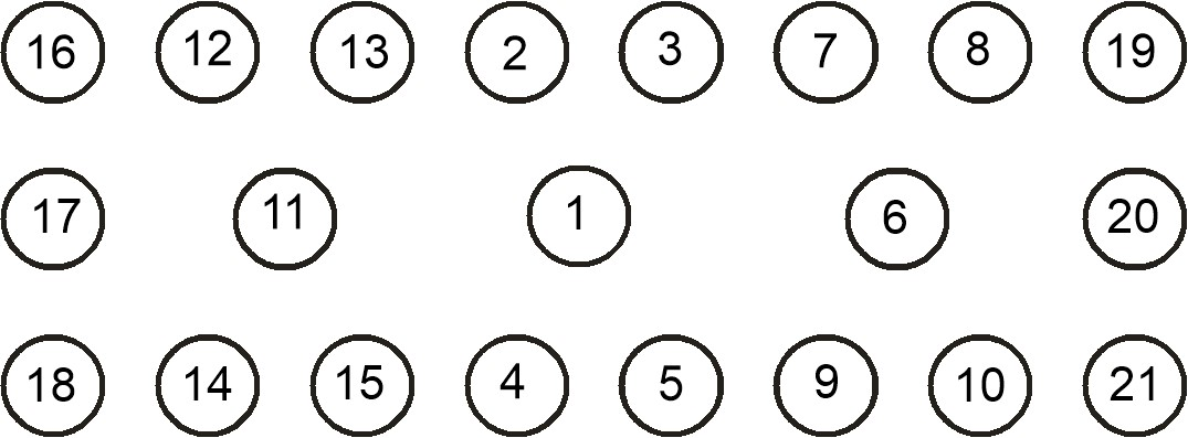 Arrangement of figures at Lecture Hall of Tôji